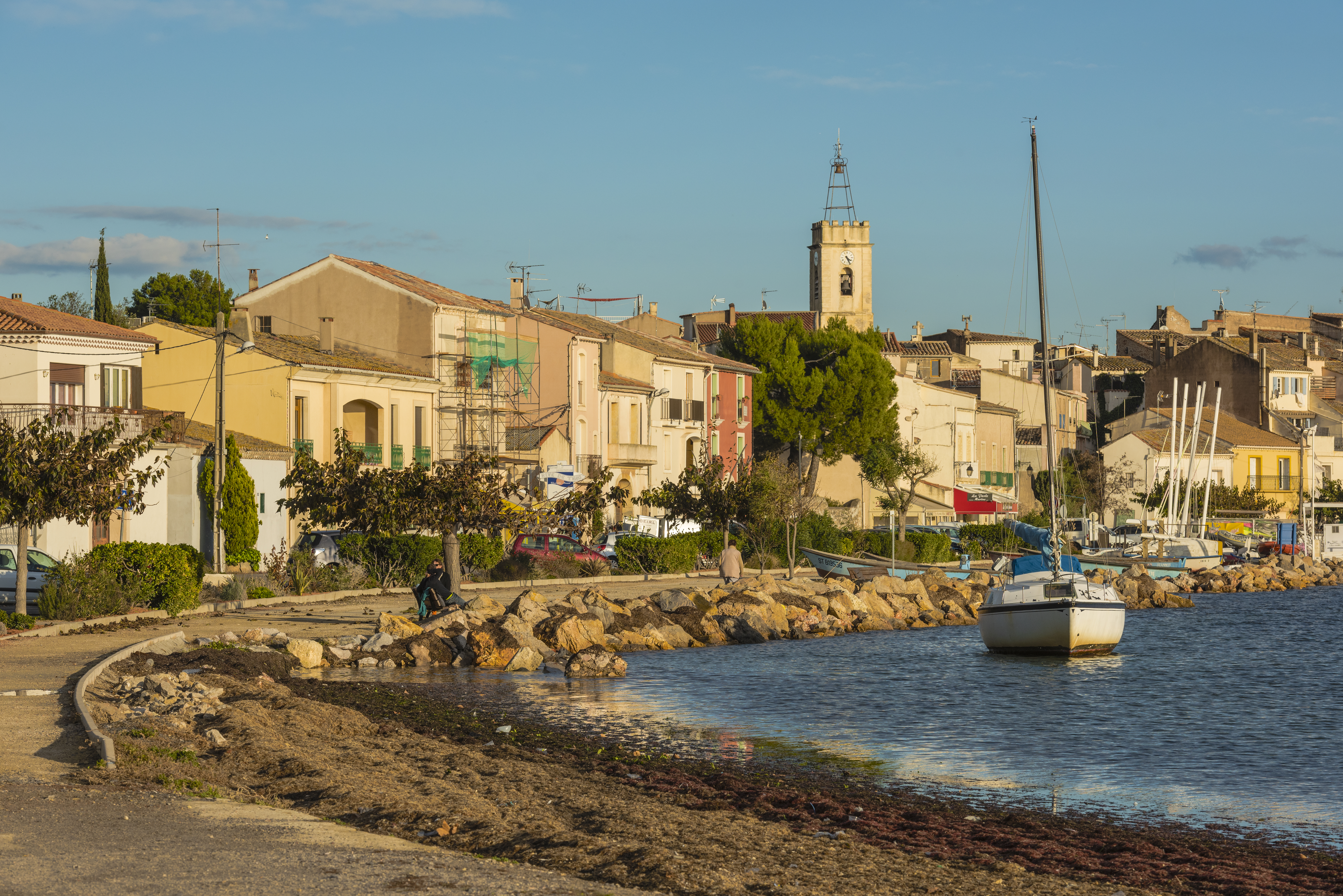 Near the Étang de Thau in Bouzigues, Hérault, France.